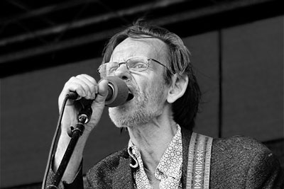 Megas (Magnús Þór Jónsson) á Sjómannadæginn I Rvík (2011)